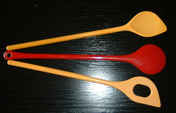 spoons for cooking